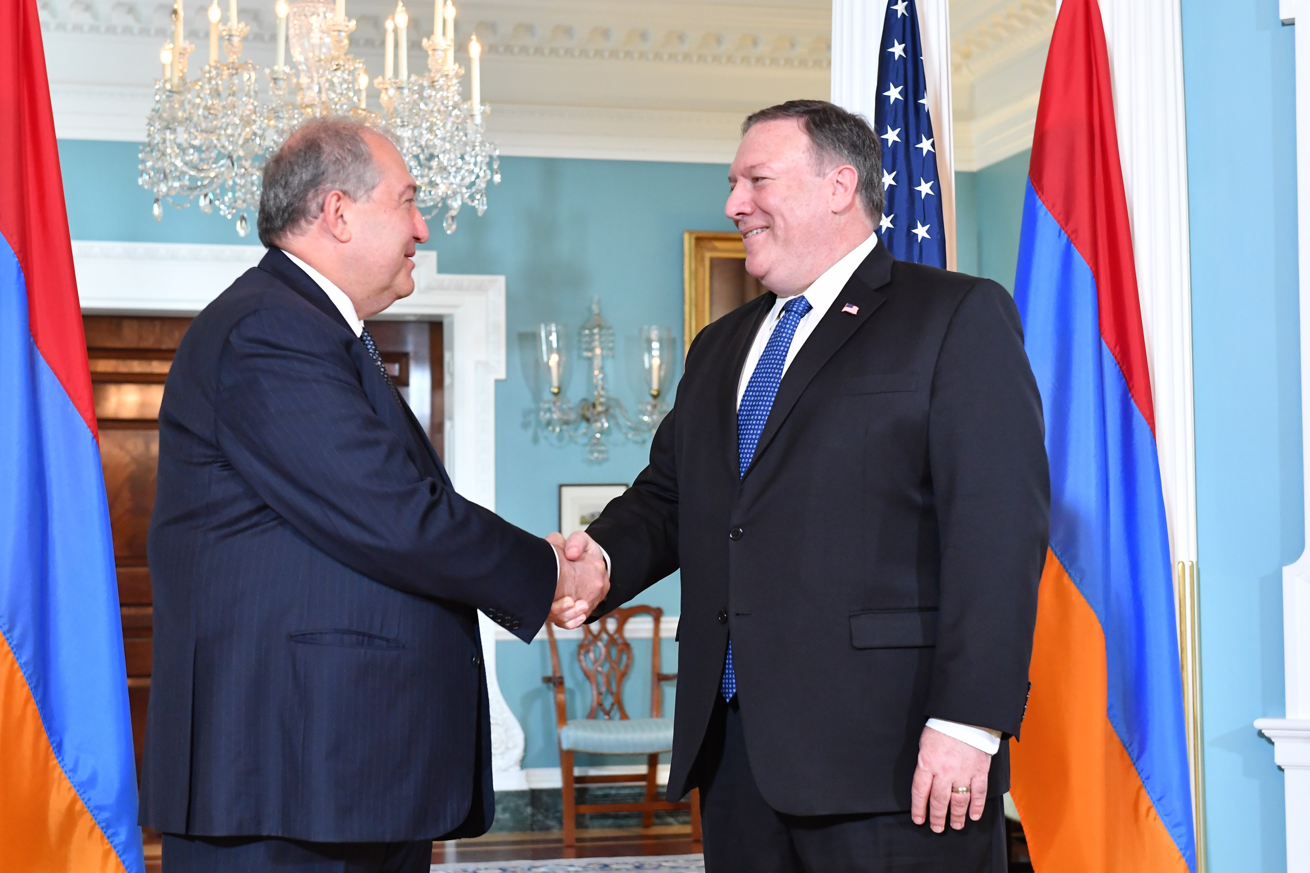 Secretary Michael R. Pompeo shakes hands with Armenian President Armen Sarkissian, at the U.S. Department of State on June 29, 2018. (State Department photo/ Public Domain)